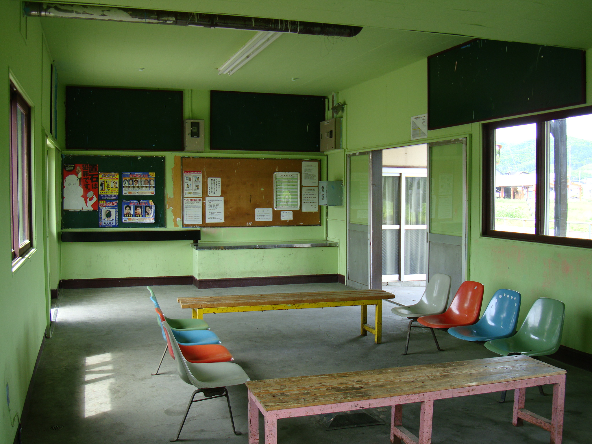 Higashi-Ainonai Station